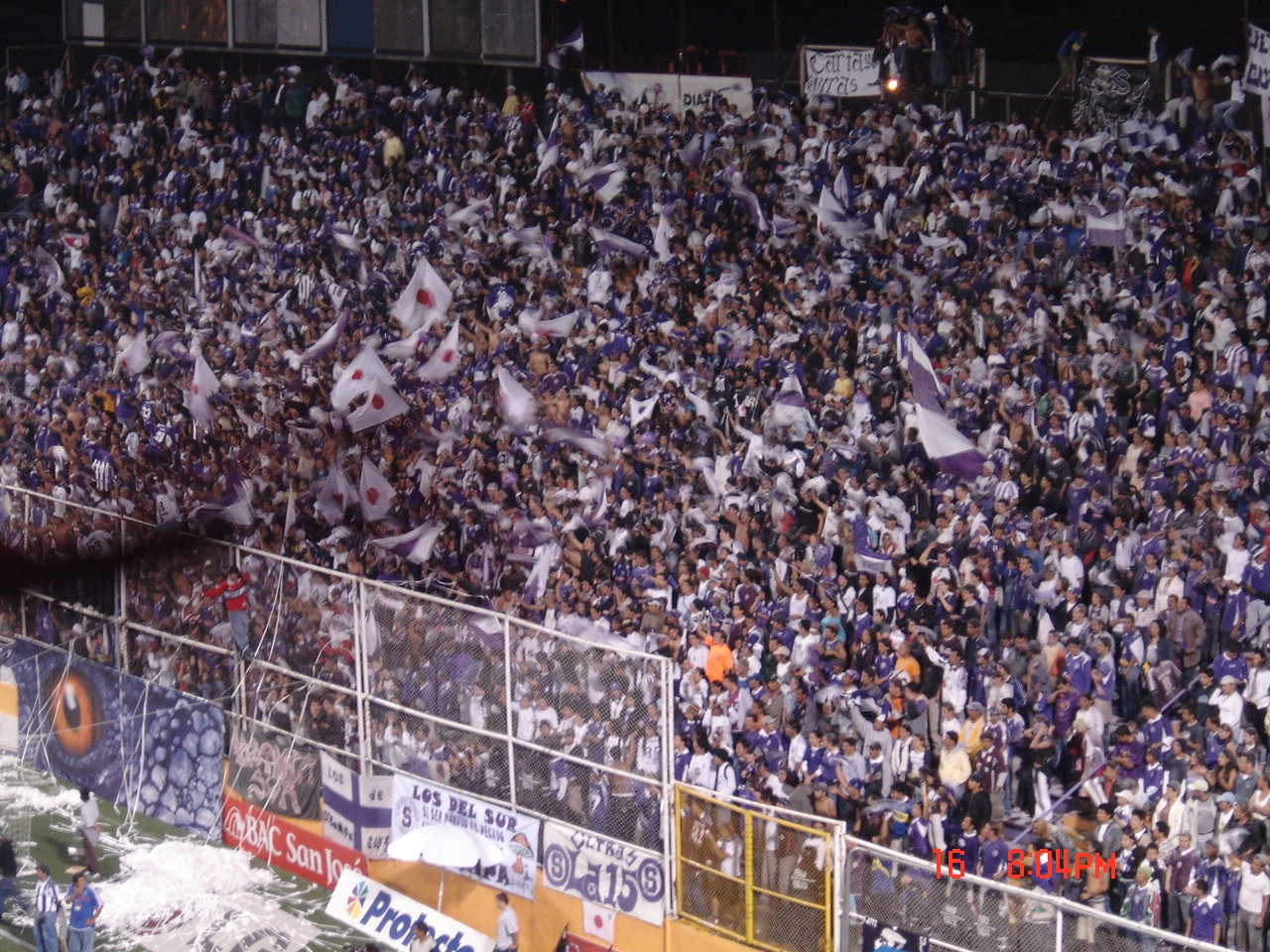 Fans of "La Ultra Morada" in La Cueva. Taken at a game I went to.